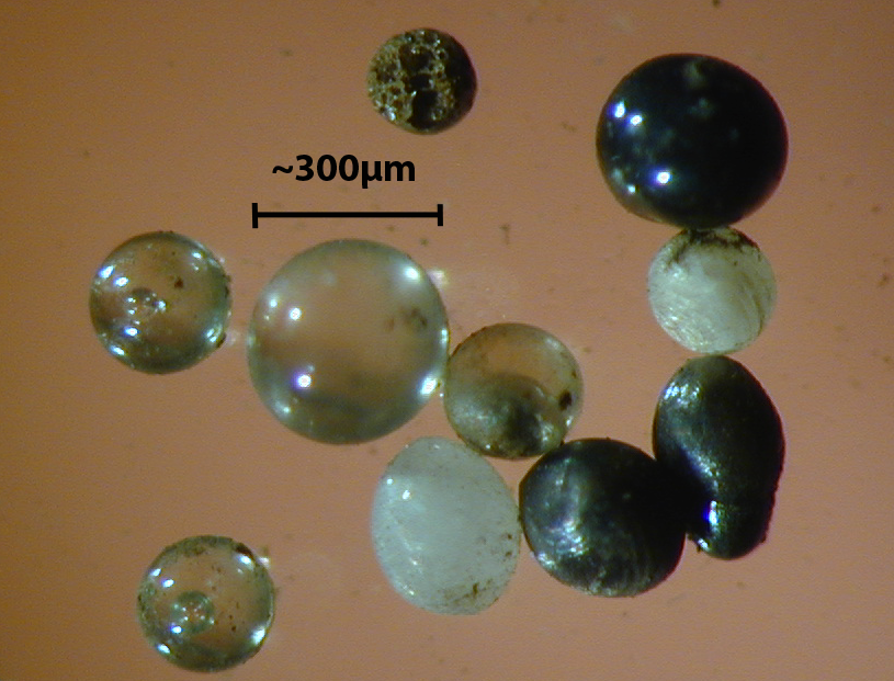 An assortment of melted micrometeorites: Light microscope images of stony cosmic spherules. Largest spherule is about 300µm in diameter.